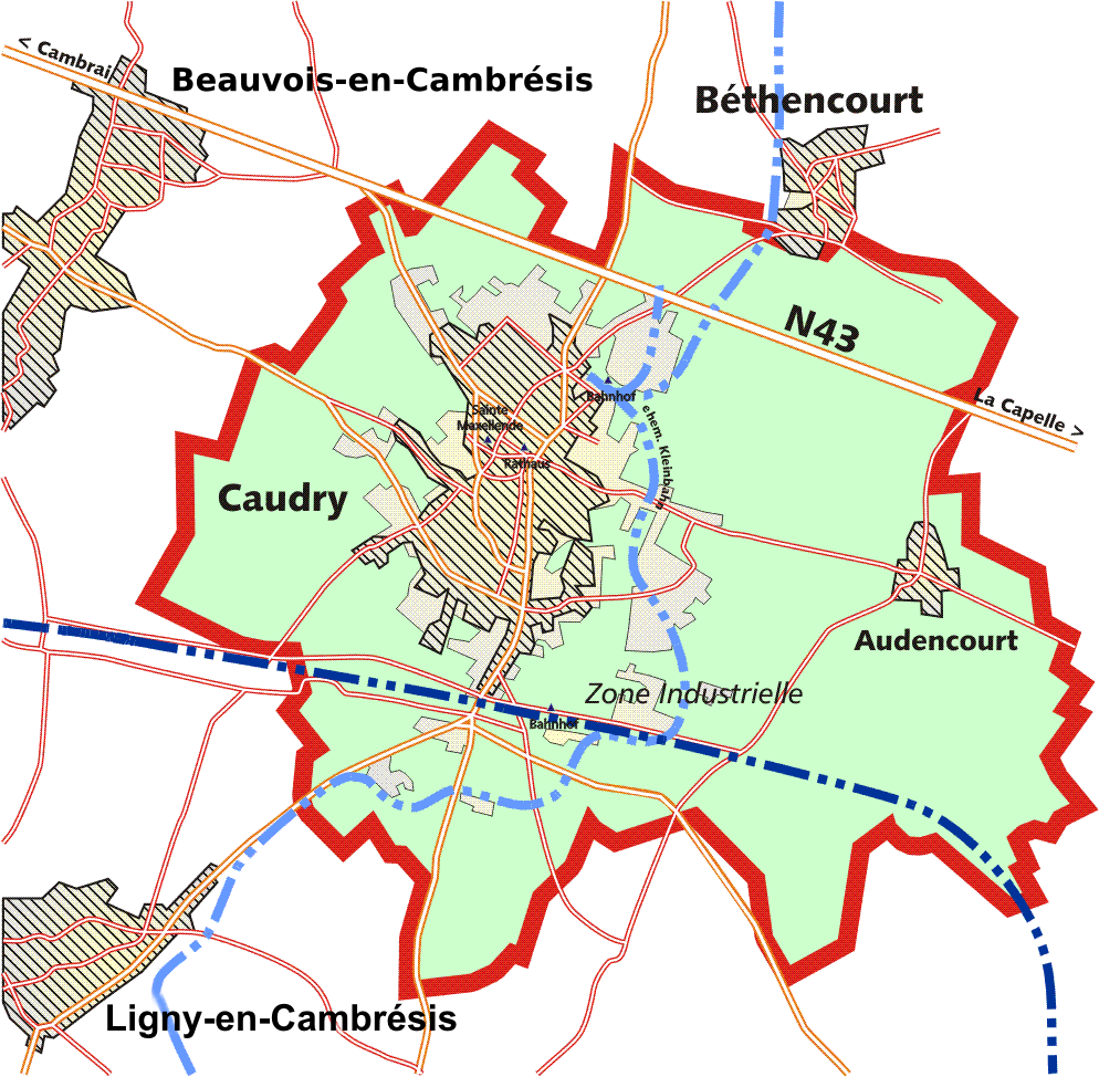 map of caudry, France Nord department in 1914 and in 2000 incl. most important roads an all railway tracks and narrow gauge railways (light blue)